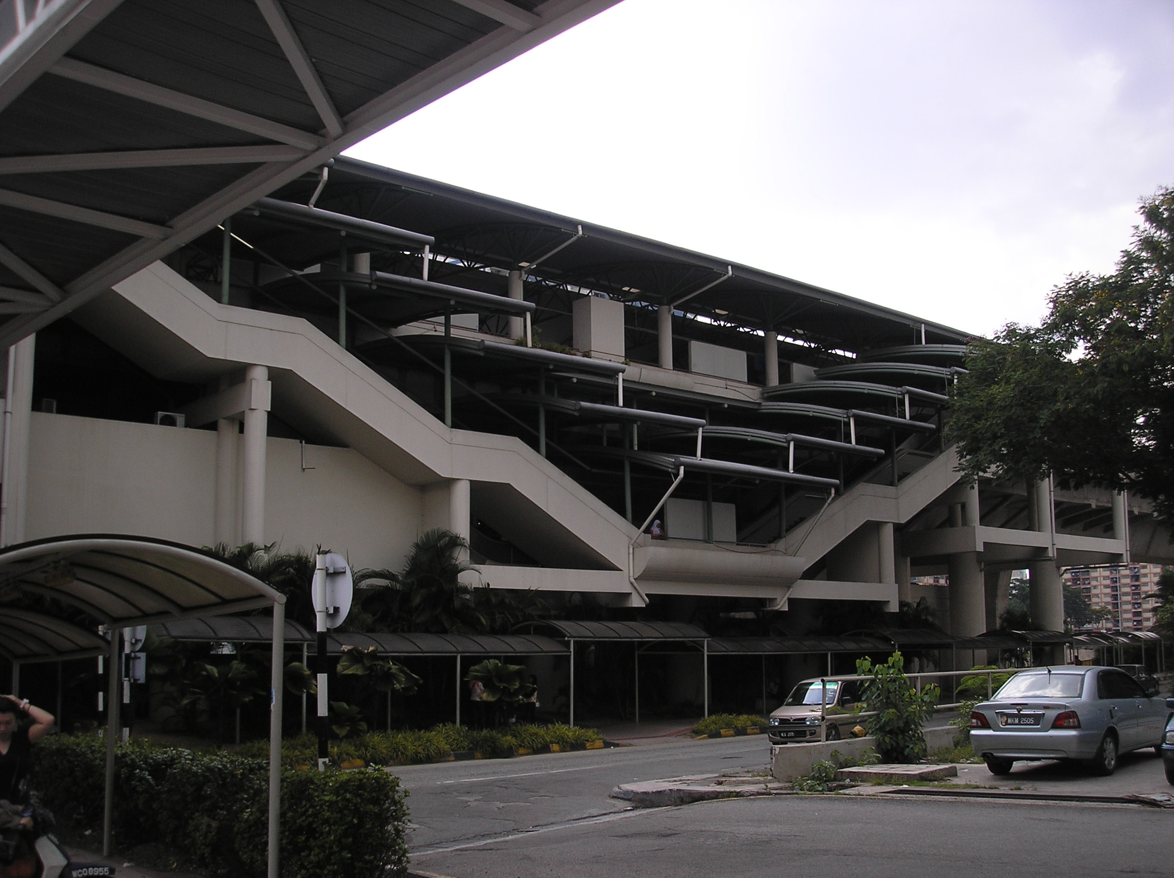 The exterior of the Titiwangsa LRT station (Sri Petaling Line/Ampang Line), Kuala Lumpur, Malaysia.